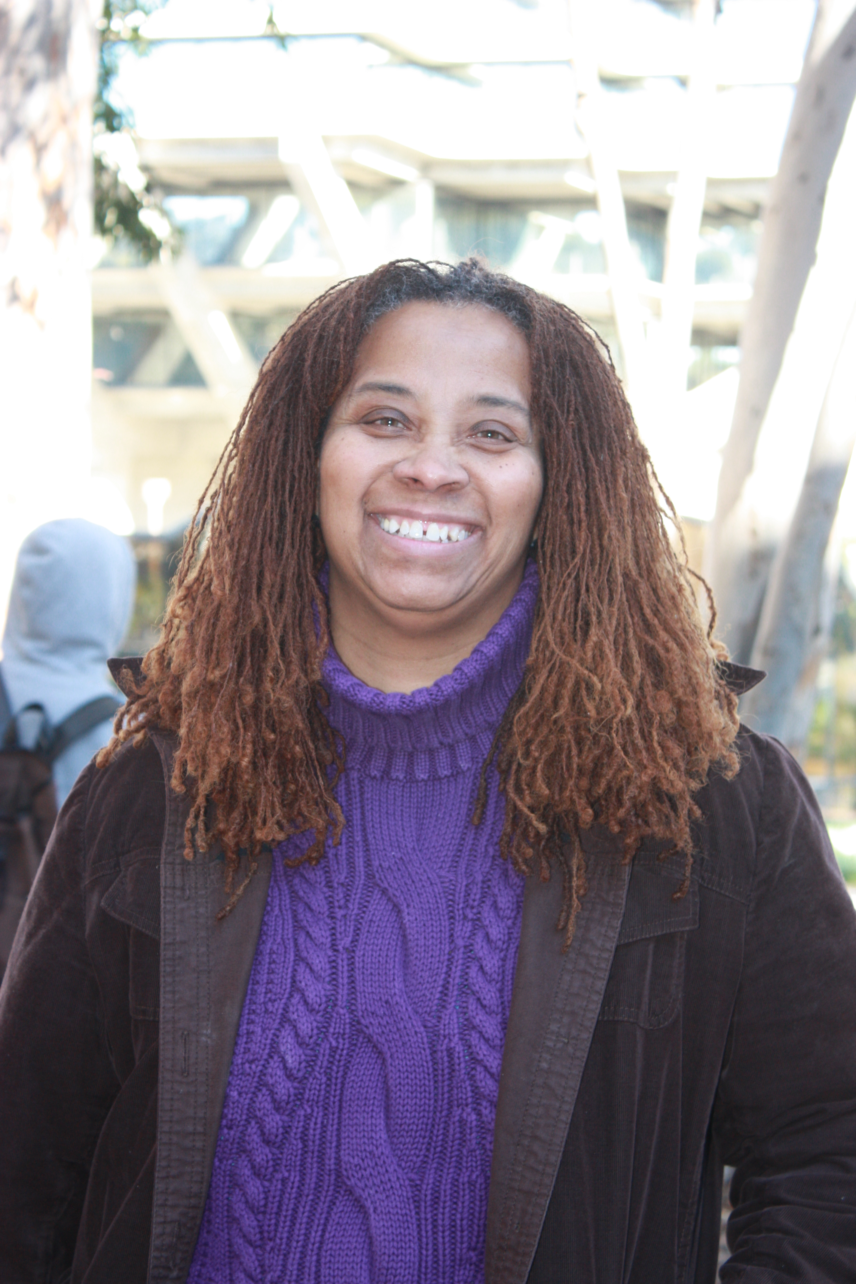 Zeinabu irene Davis at UCSD